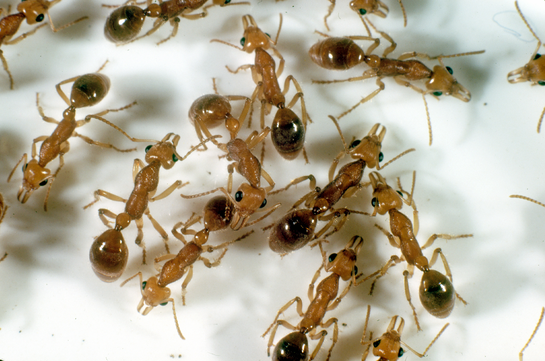 Nothomyrmecia macrops workers, one of the world's most primitive living ants. In nature these nocturnal ants form small colonies in the soil with small, cryptic entrances. Photo: RW Taylor, CSIRO Entomology